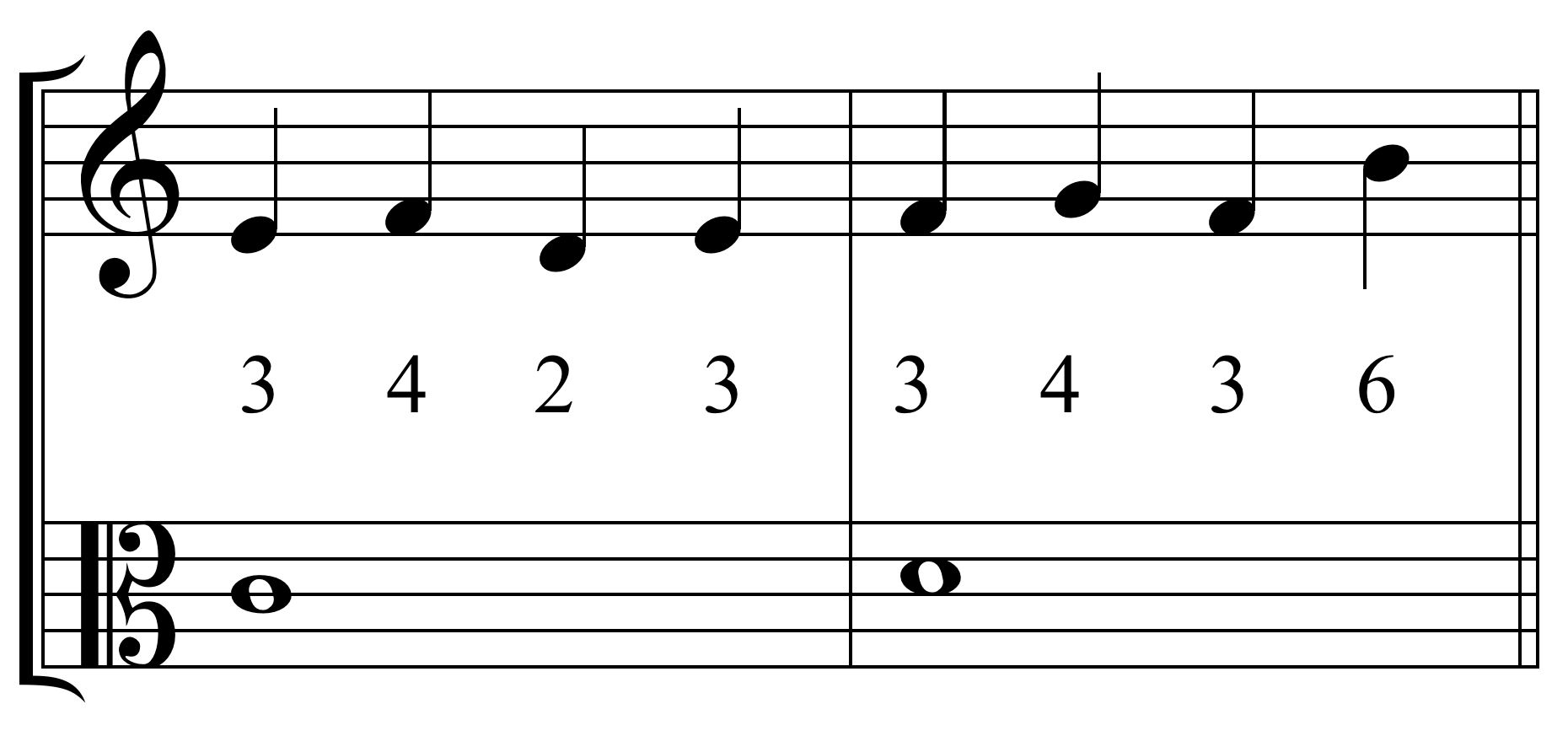 This is an example of an ascending double neighbor figure against a cantus firmus.